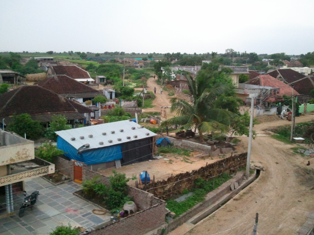 Mandepudi close view